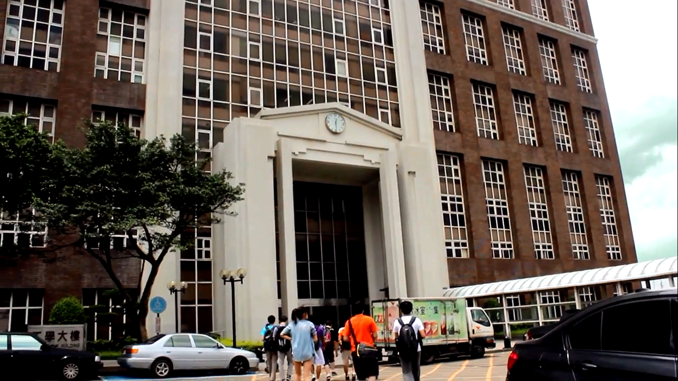 Chang Gung University engineering building